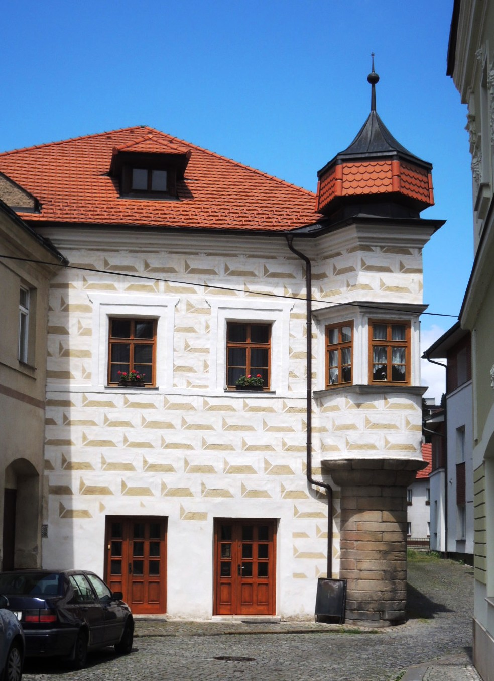 Ledeč nad Sázavou, house No. 76 (16th century)